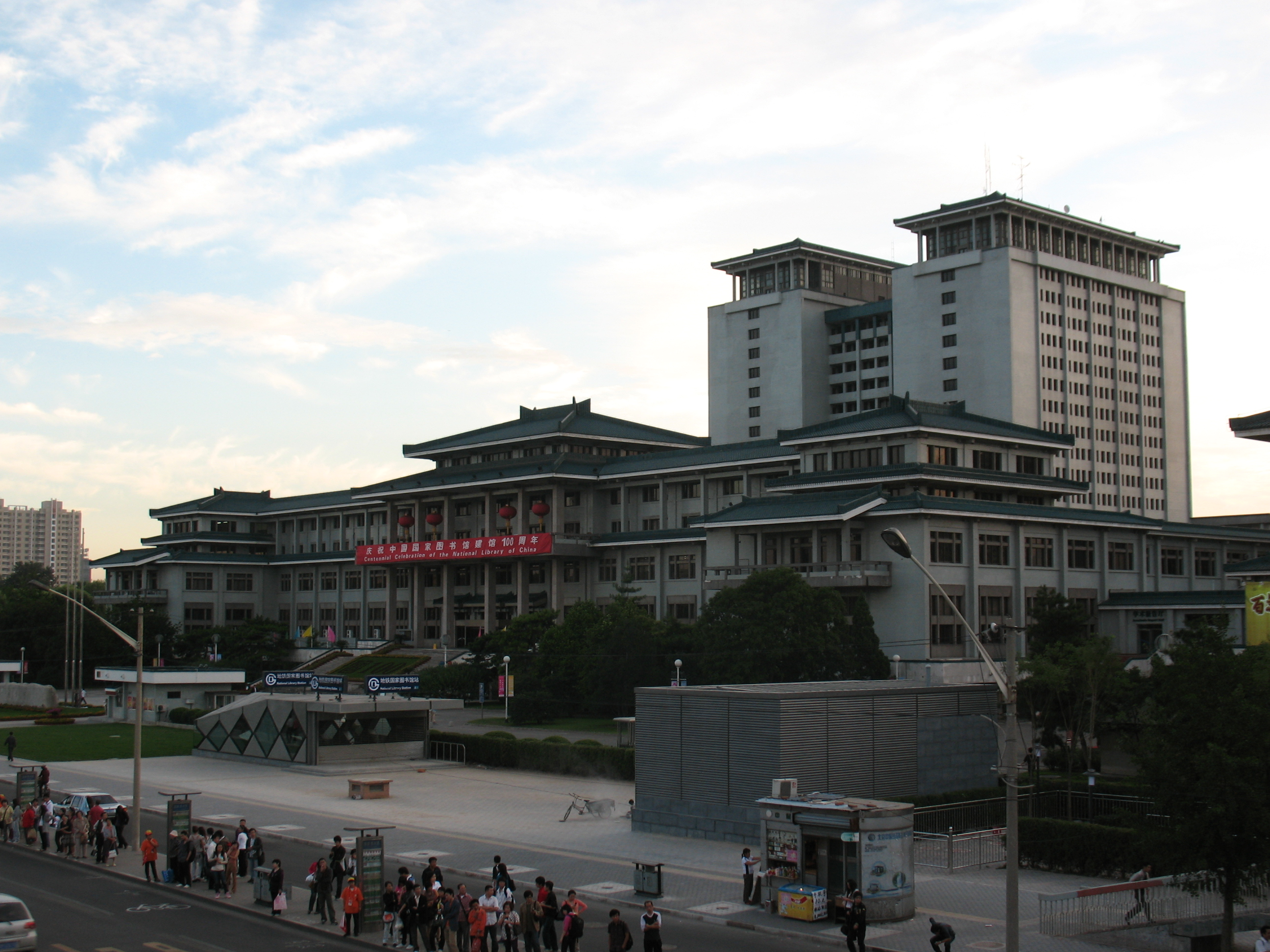 National Library of China - South House (1987)